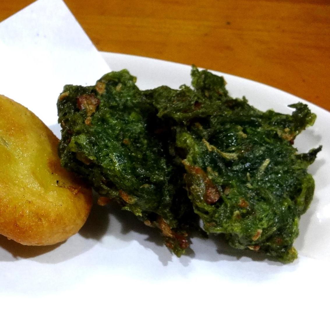 Deep fried dishes of Amami. Nemacystus, Mashed yam and rice cake and Sea lettuce.